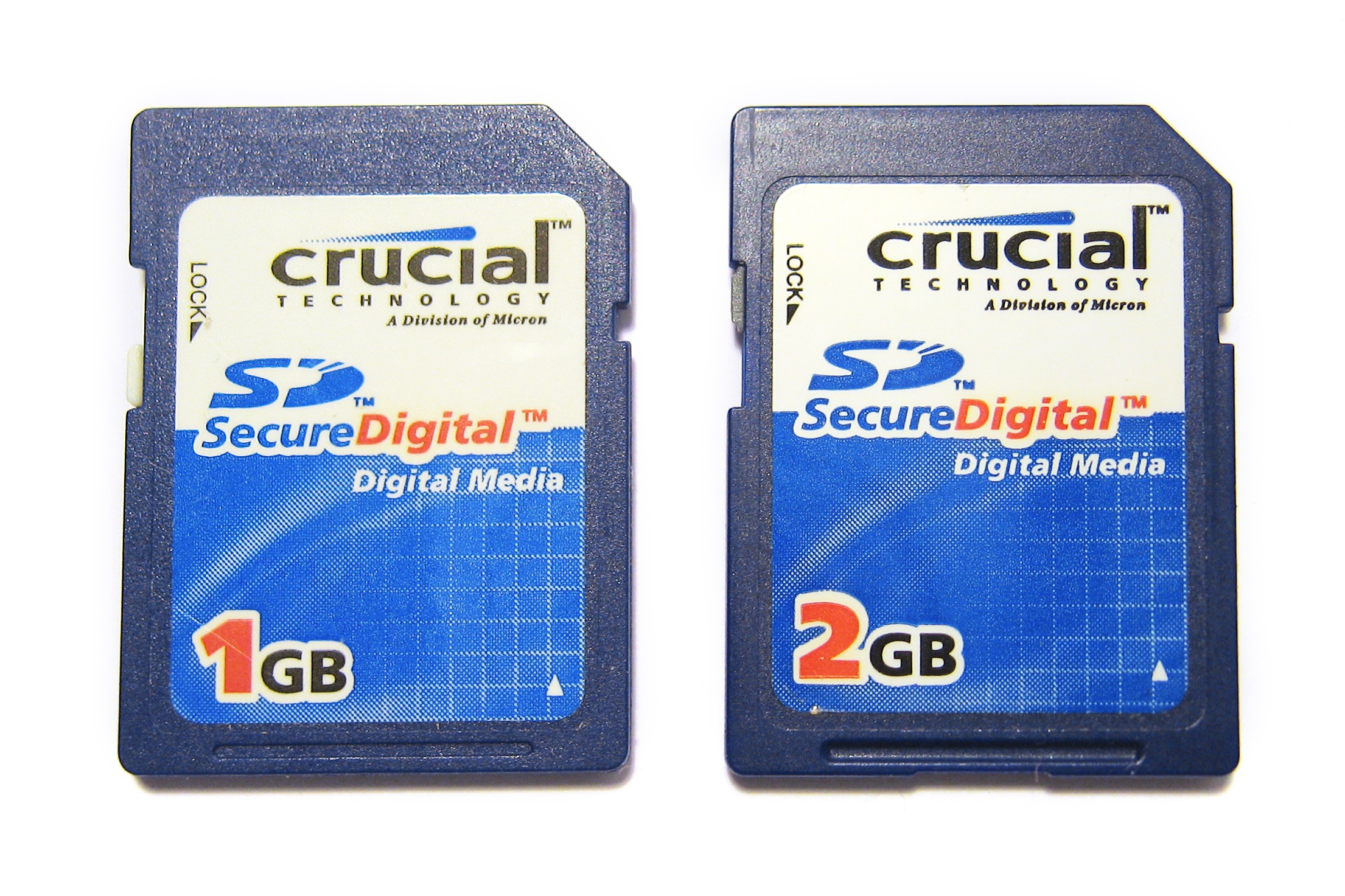 Crucial Technology (Micron) SD Cards (front side) - 1GB (left) and 2GB (right). Purchased 2007, photographed 2017. It appears Micron stopped using the "Crucial" brand for SD cards (in favour of "Lexar"?) a while after these were bought, as I couldn't find any of the latter. (Label design does not appear to be distinctive/creative enough to be copyrightable (IMO), but trademarks should still be a consideration).